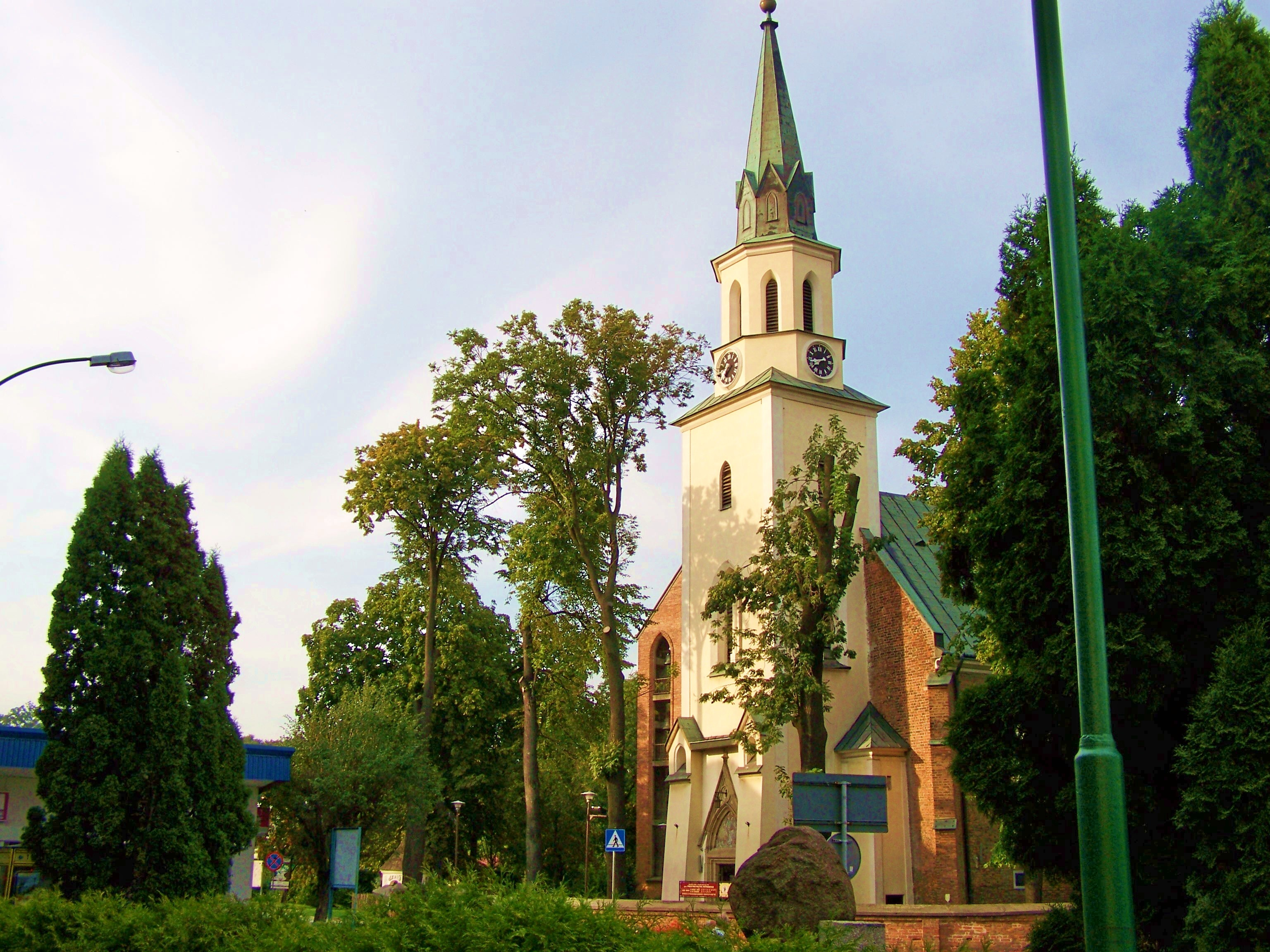 Parish Church in Ropczyce